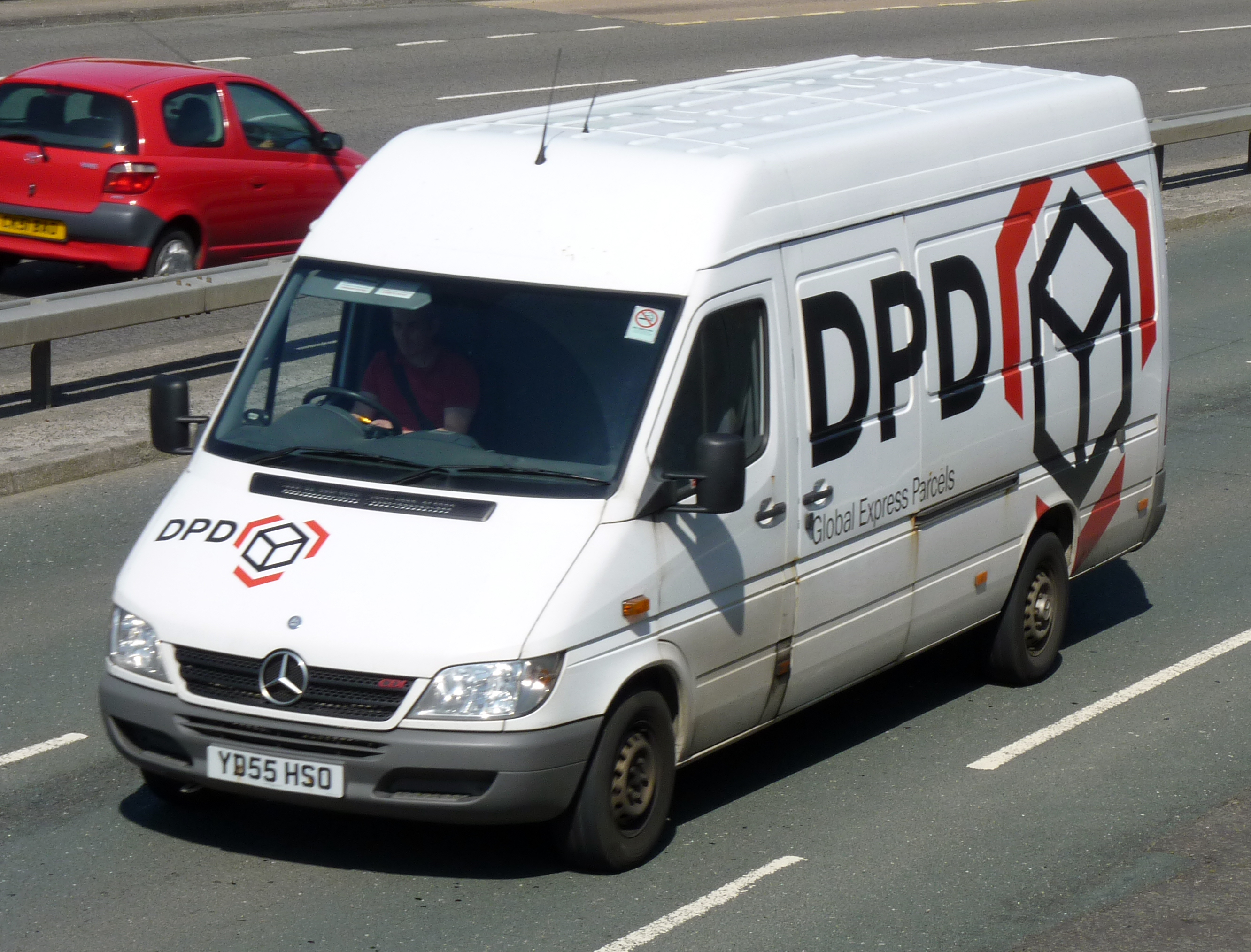 Crownhill Plymouth 9th April 2010